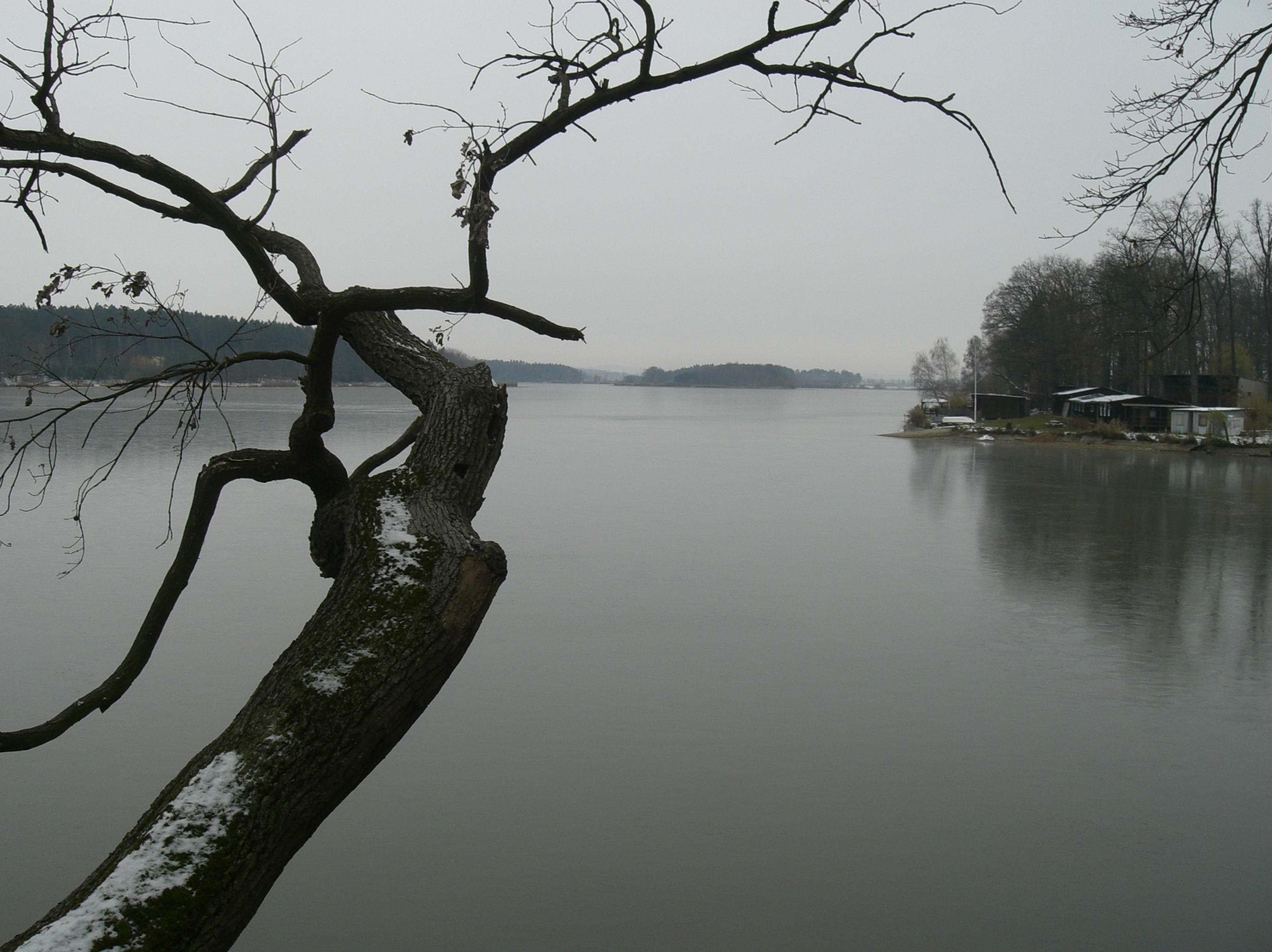 Bezdrev pond near Hluboká nad Vltavou, Czech Republic 49°2′53″N 14°23′10″E / 49.04806°N 14.38611°E